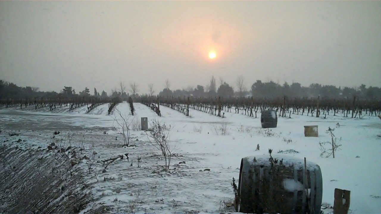 A Merlot vineyard in the French wine region of Cabardes in the Languedoc-Roussillon